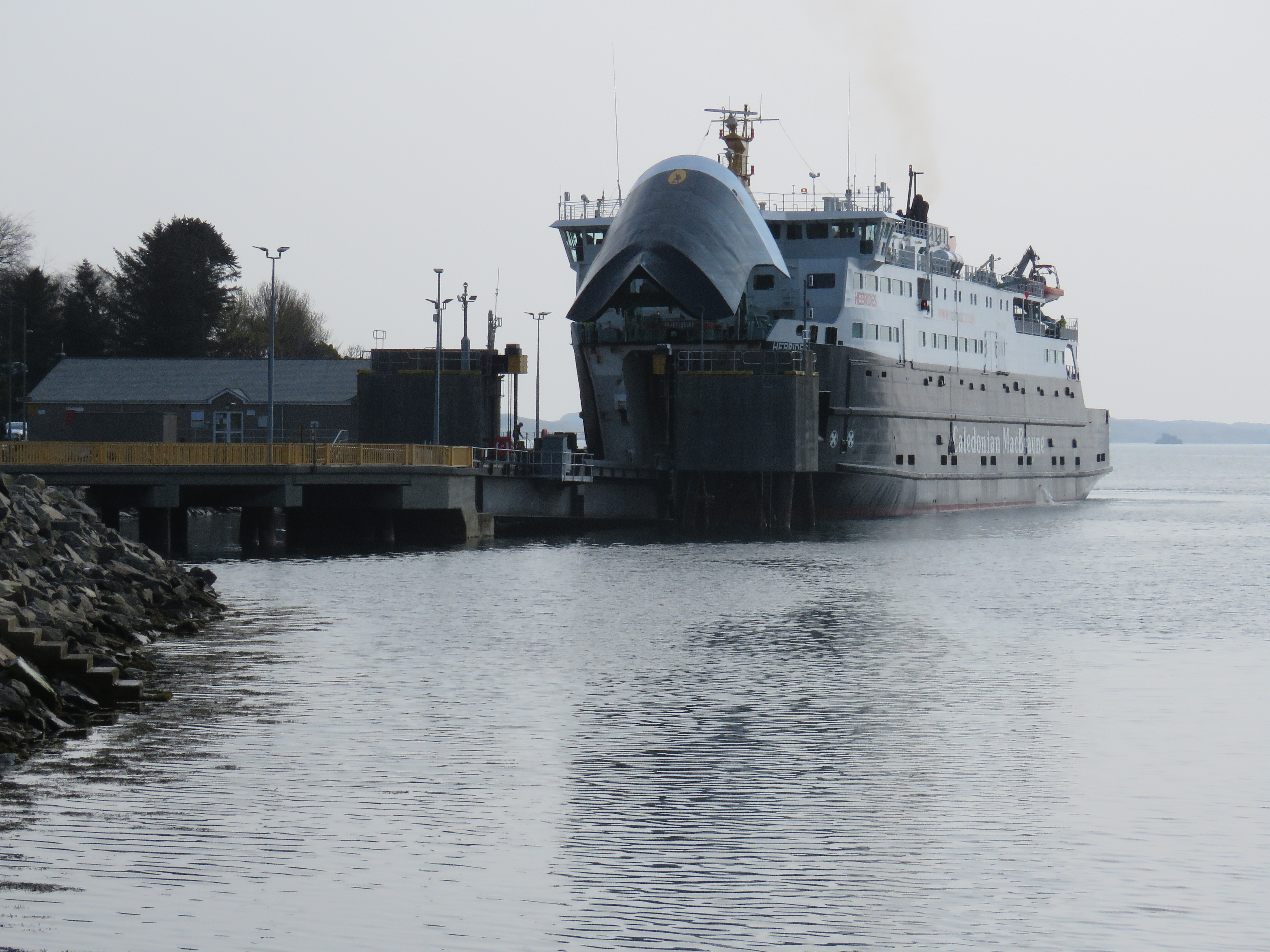 Tarbert-Uig ferry in Tarbert, Outer Hebrides, Scotland